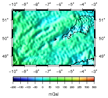 Bouguer gravity anomaly map around southwest England, from using EGM2008 data publicly released by the National Geospatial Intelligence Agency (NGA)